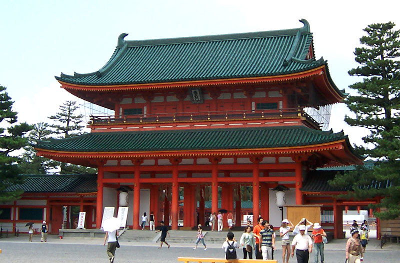 The main gate to Heian Jingu Shrine, one of the most famous shrines in Kyoto.